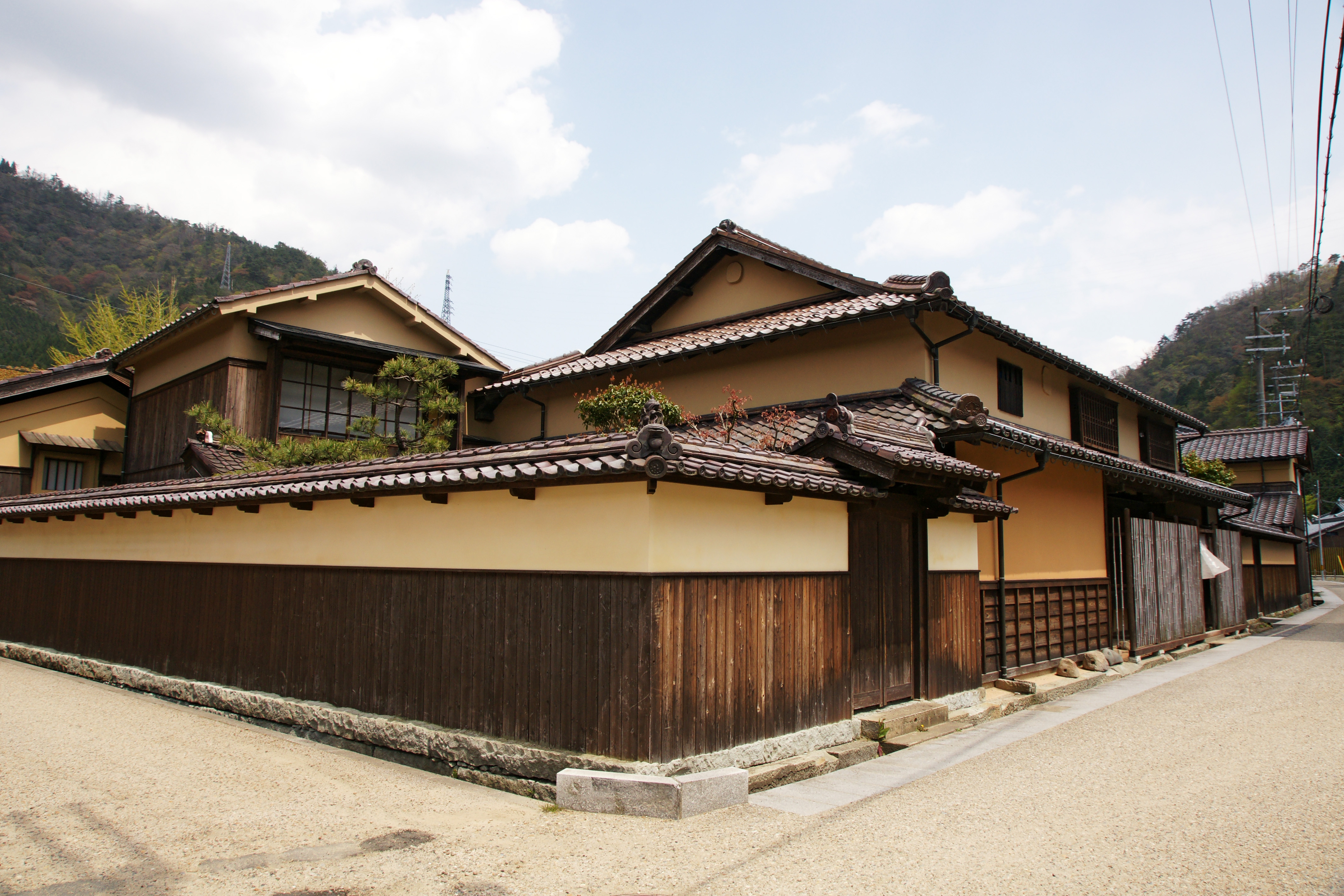 Izutsuya in Kuchiganaya, Ikuno, Asago, Hyogo prefecture, Japan.